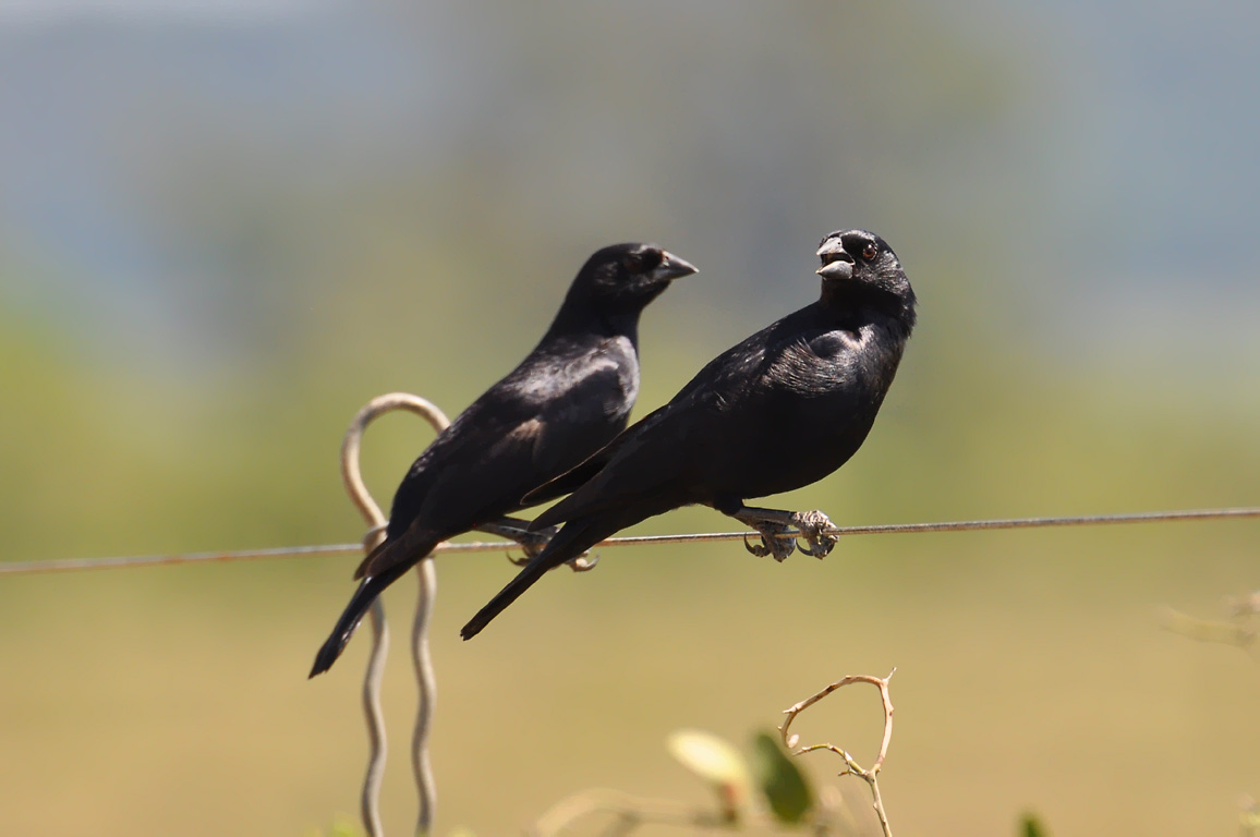 Molothrus rufoaxillaris photographed in Rio Grande do Sul, Brazil, in December 2010.